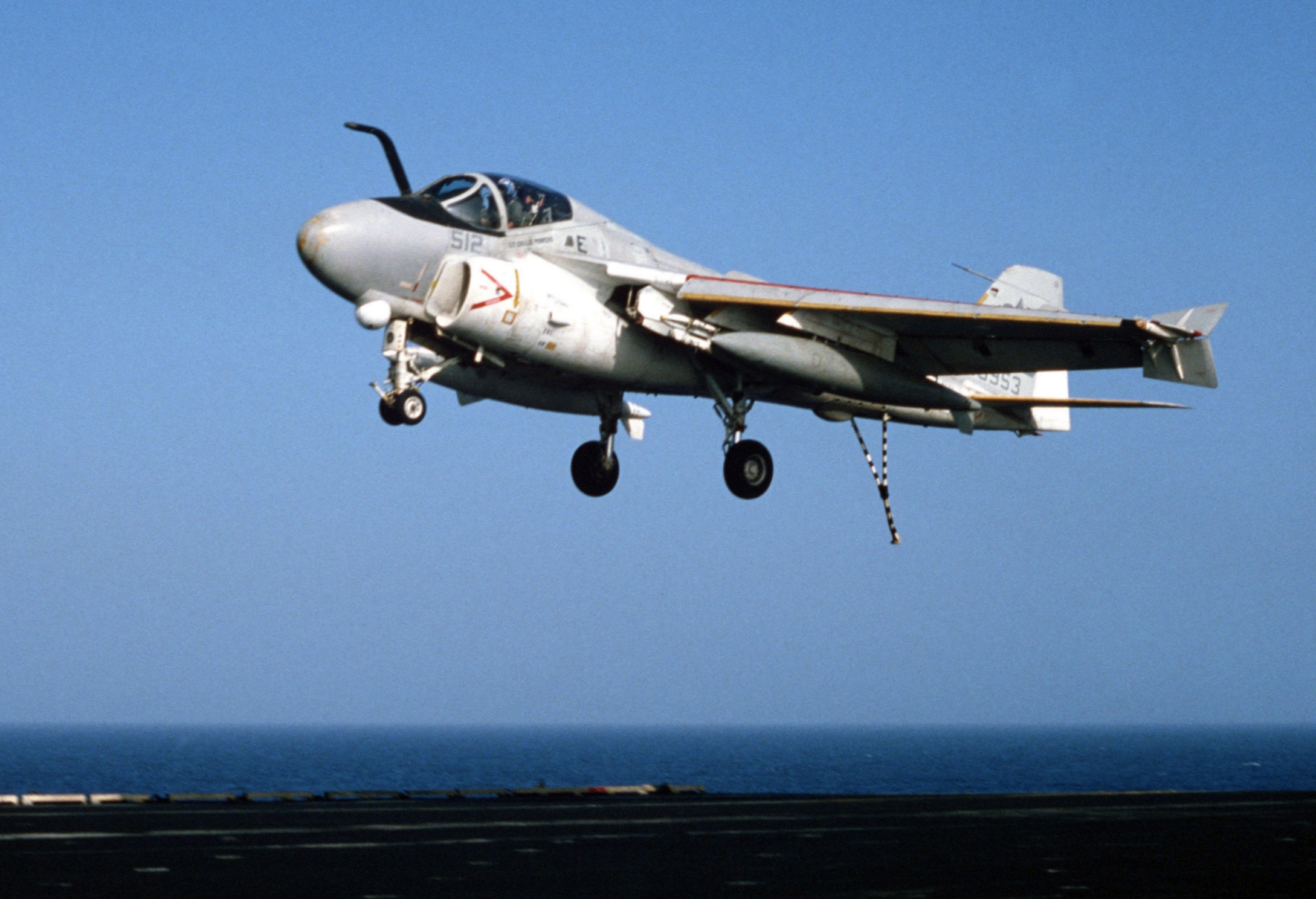 A U.S. Navy Grumman A-6E Intruder from Attack Squadron VA-34 Blue Blasters landing on the aircraft carrier USS America (CV-66). VA-34 was assigned to Carrier Air Wing 1 (CVW-1) aboard the America for a deployment to the Mediterranean Sea and the Indian Ocean from 7 December 1982 to 2 June 1983.